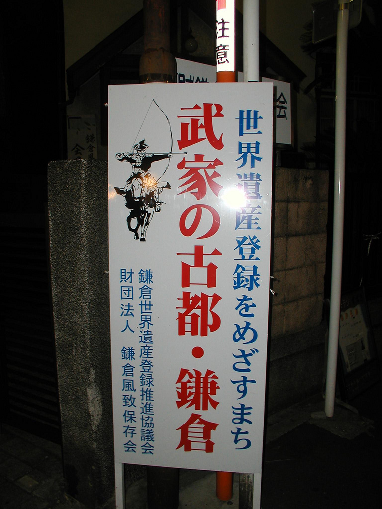 Sign posted by the Association for the Registration of Kamakura World Heritage Sites. The large red text reads "buke no koto: kamakura" (Ancient Capital of Warrior Houses: Kamakura). The blue text to the right reads "sekai isan tōroku wo mezasu machi" (Town which has its sights set on World Heritage Site registration).